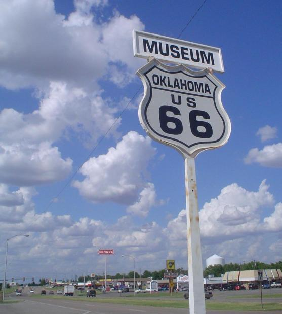 Sign for the Route 66 Museum in Clinton, Oklahoma, USA.